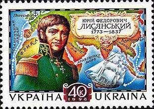 Stamp of Ukraine